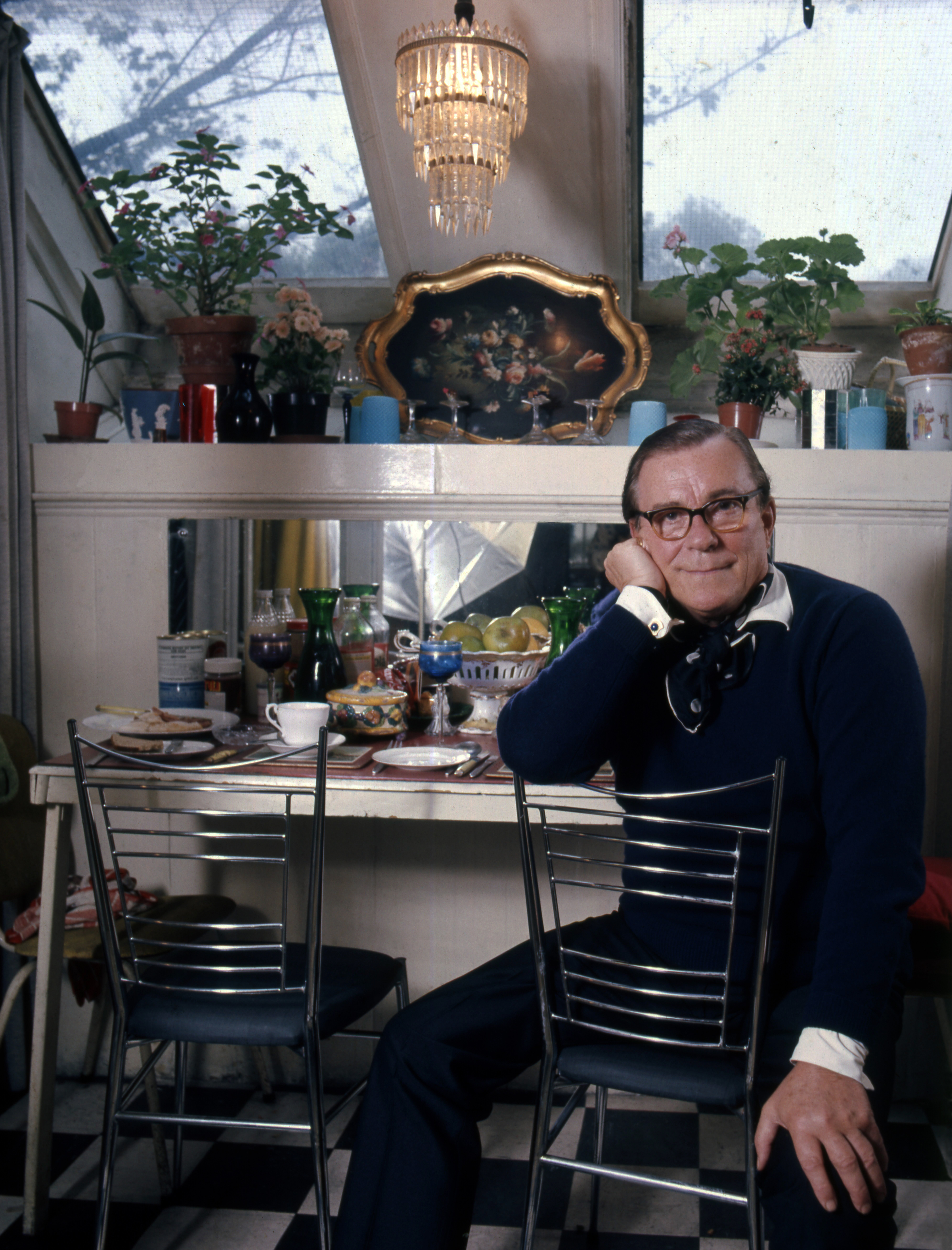 Billy Milton 1930's actor in his kitchen, Kensington